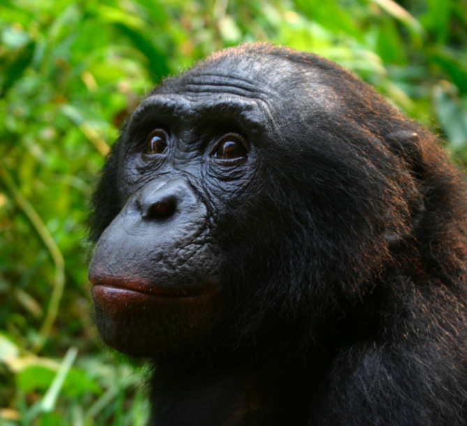 Male bonobo (Pan paniscus)at Lola ya Bonobo, Democratic Republic of Congo